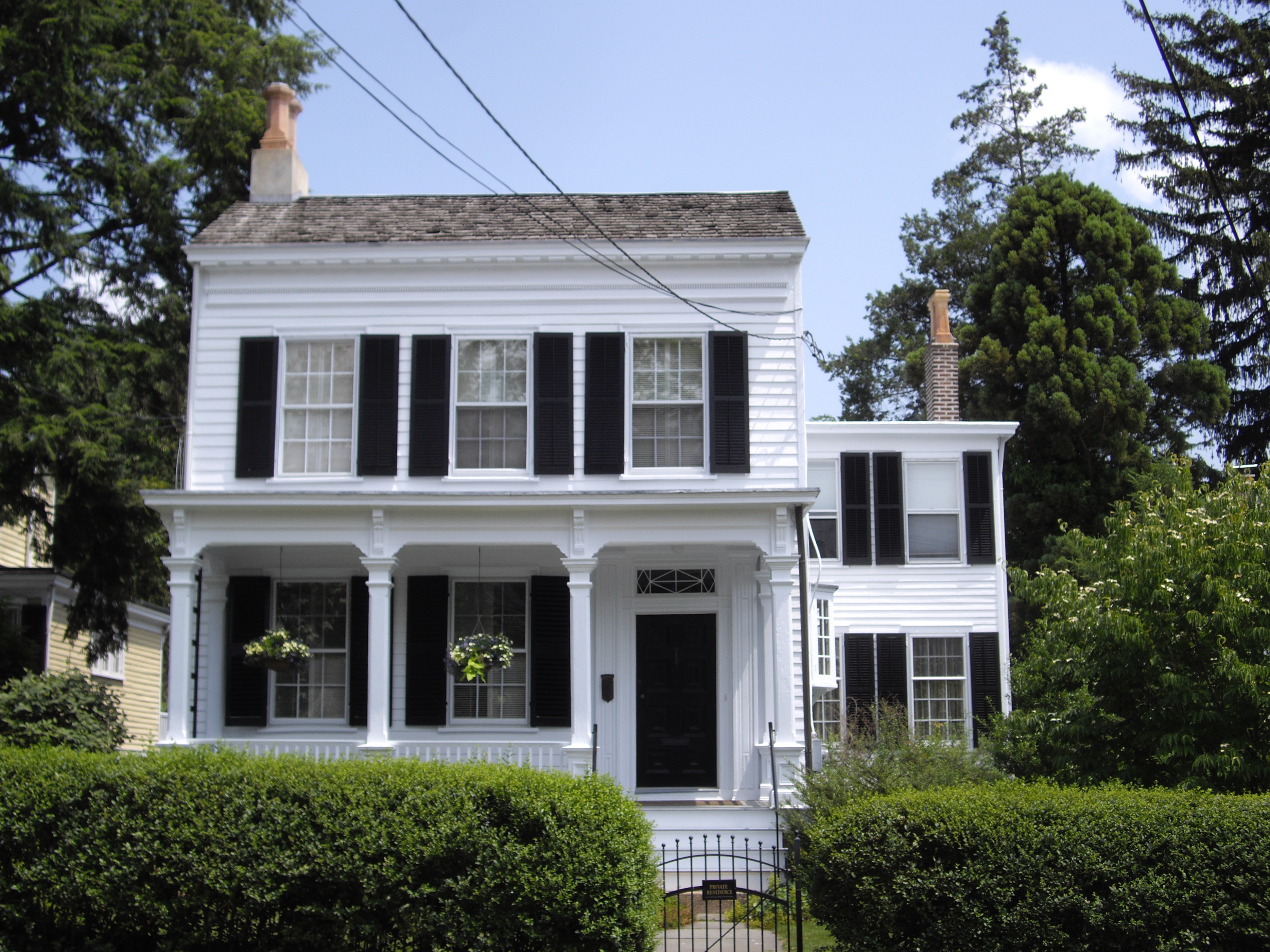 Albert Einstein House, Princeton, NJ. In August 1935 Einstein bought a single family house at 112 Mercer Street in Princeton, near the institute